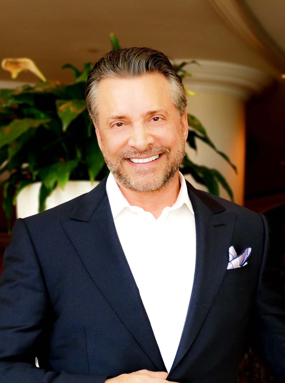 Photo of author and motivational speaker James Arthur Ray taken in 2017.